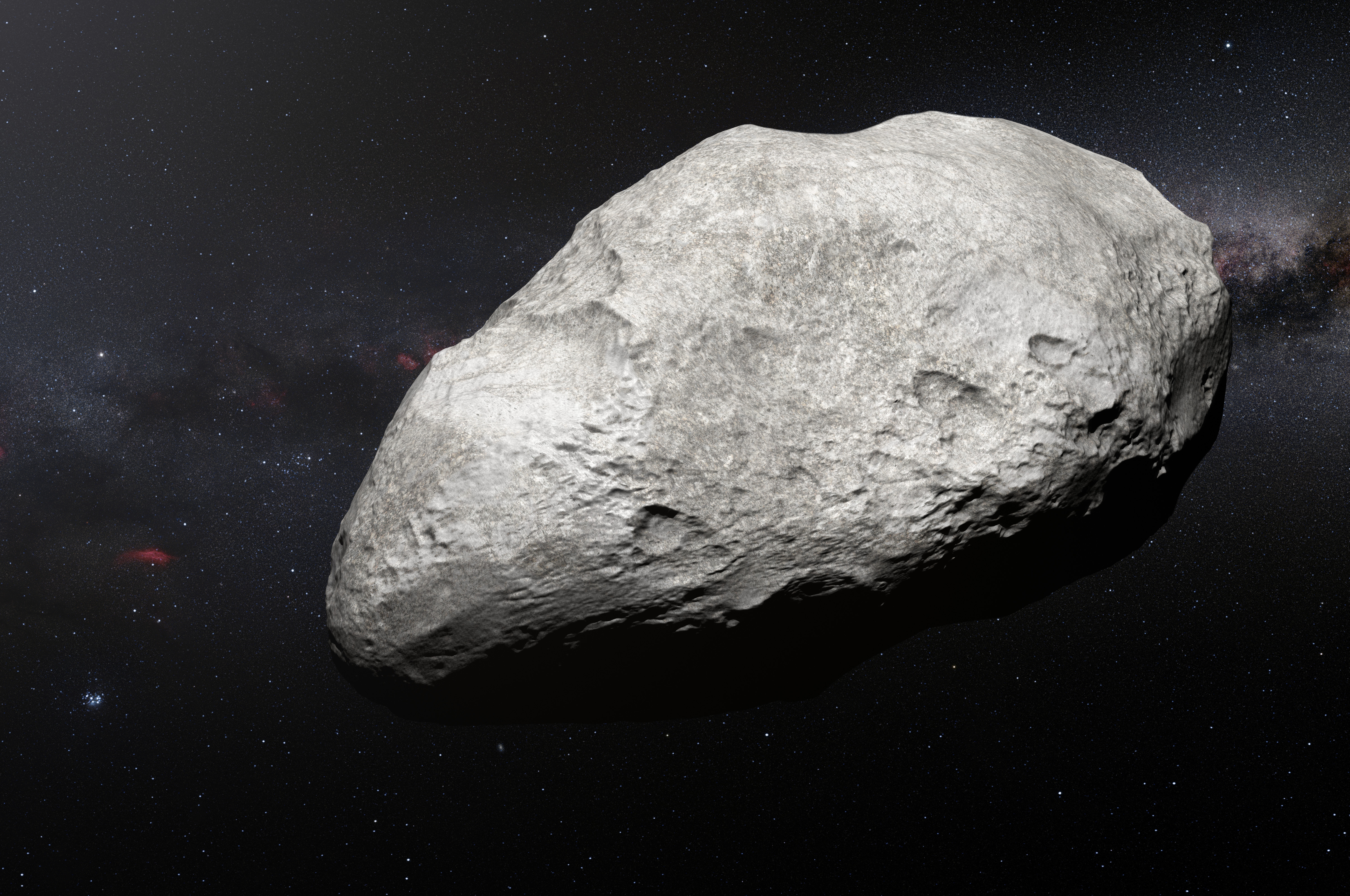 This artist’s impression shows the exiled asteroid 2004 EW95, the first carbon-rich asteroid confirmed to exist in the Kuiper Belt and a relic of the primordial Solar System. This curious object likely formed in the asteroid belt between Mars and Jupiter and must have been transported billions of kilometres from its origin to its current home in the Kuiper Belt.